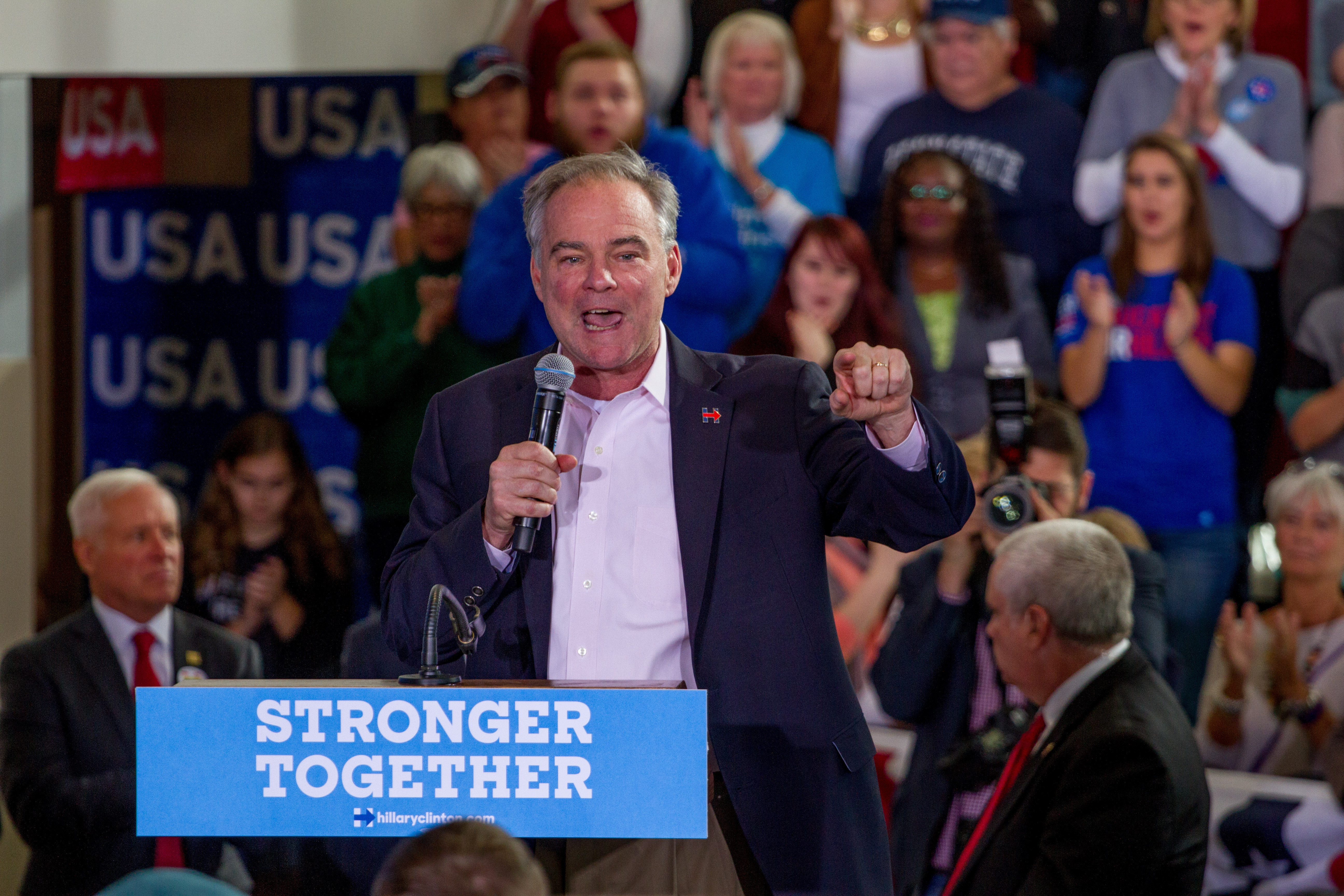 Kaine Campaign Event Newtown, PA